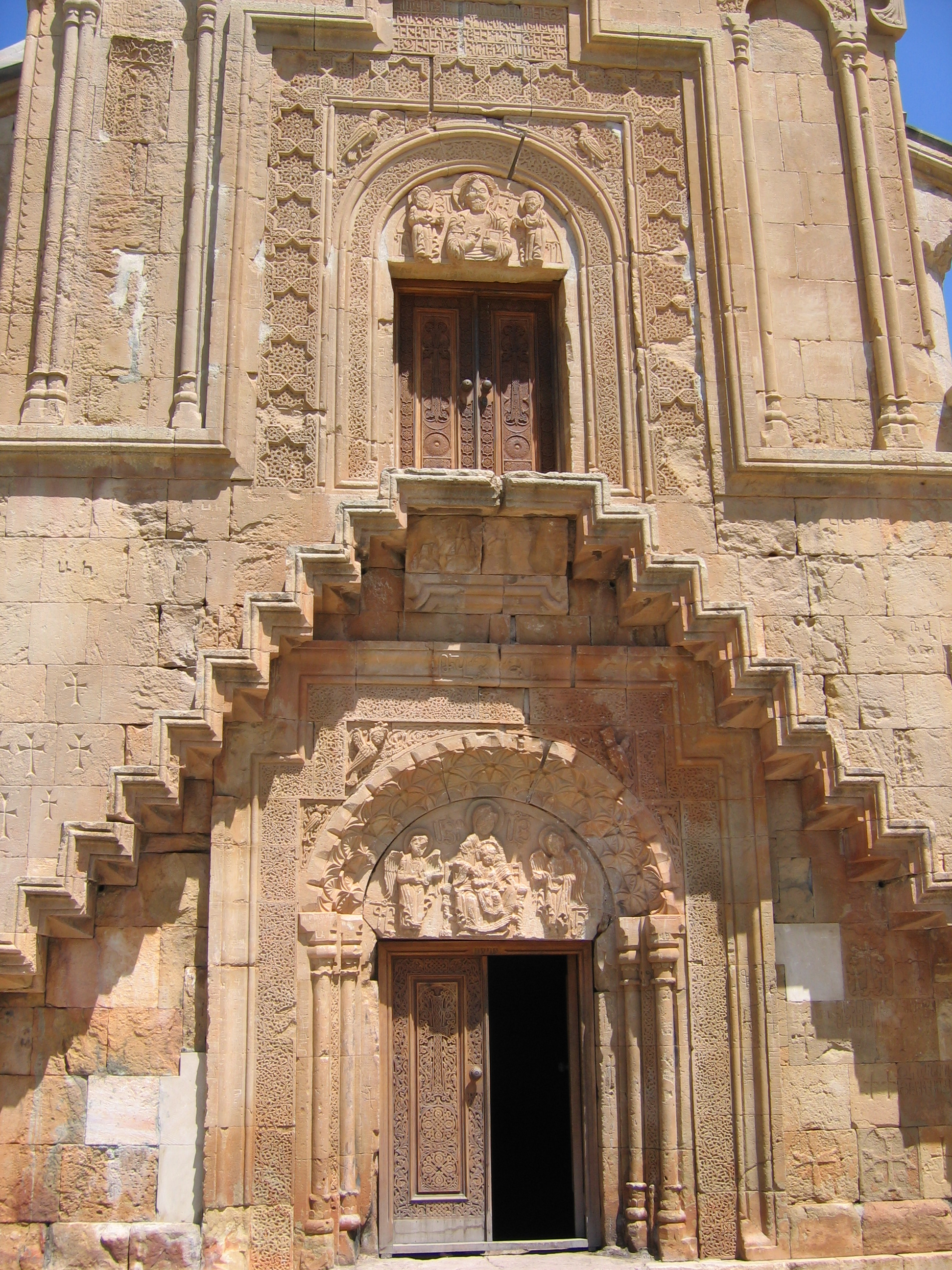 Detail of intricately carved facade of S. Astvatsatsin Church at Noravank Monastery